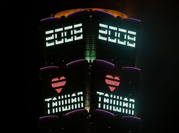 2008 Taipei City New Year Countdown Party: "Love Taiwan" wordmarks from Taipei 101.